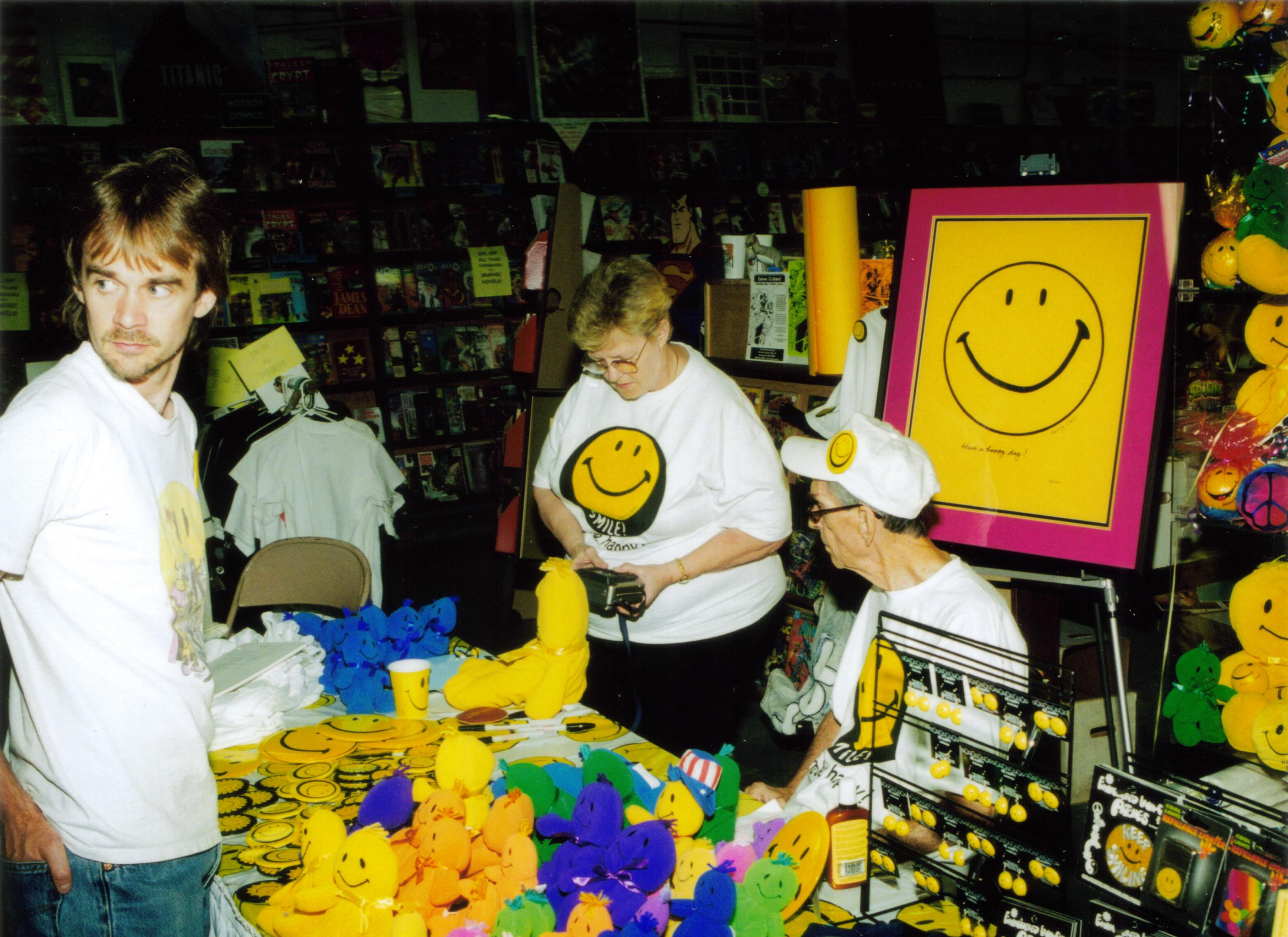 Harvey Ball (seated) at 35th Anniversary of Smiley public signing event in Worcester MA